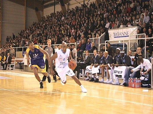 La Chorale de Roanne en 2008